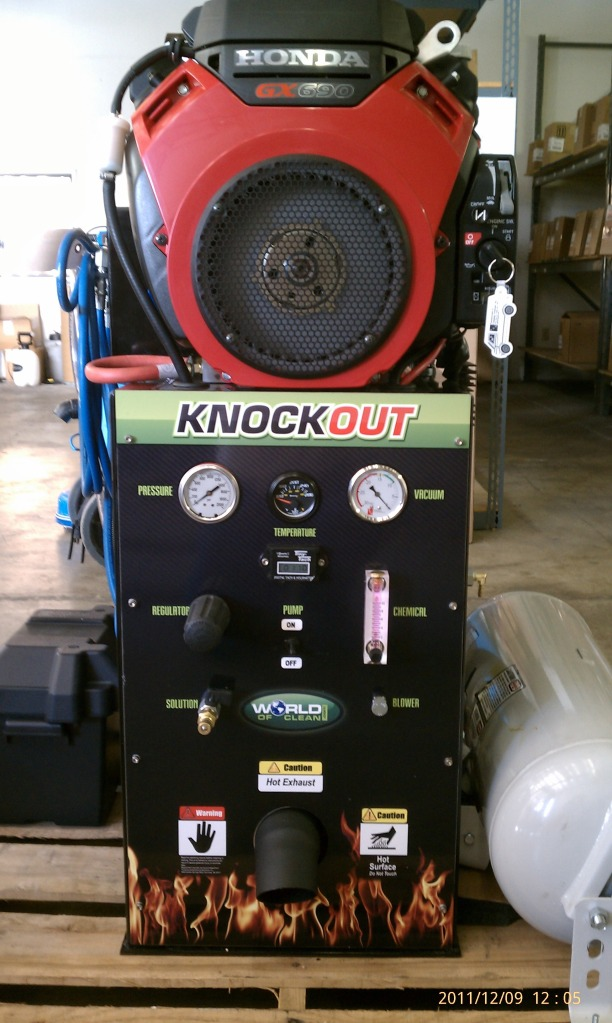 Knockout Truck Mount Carpet Cleaning Machine